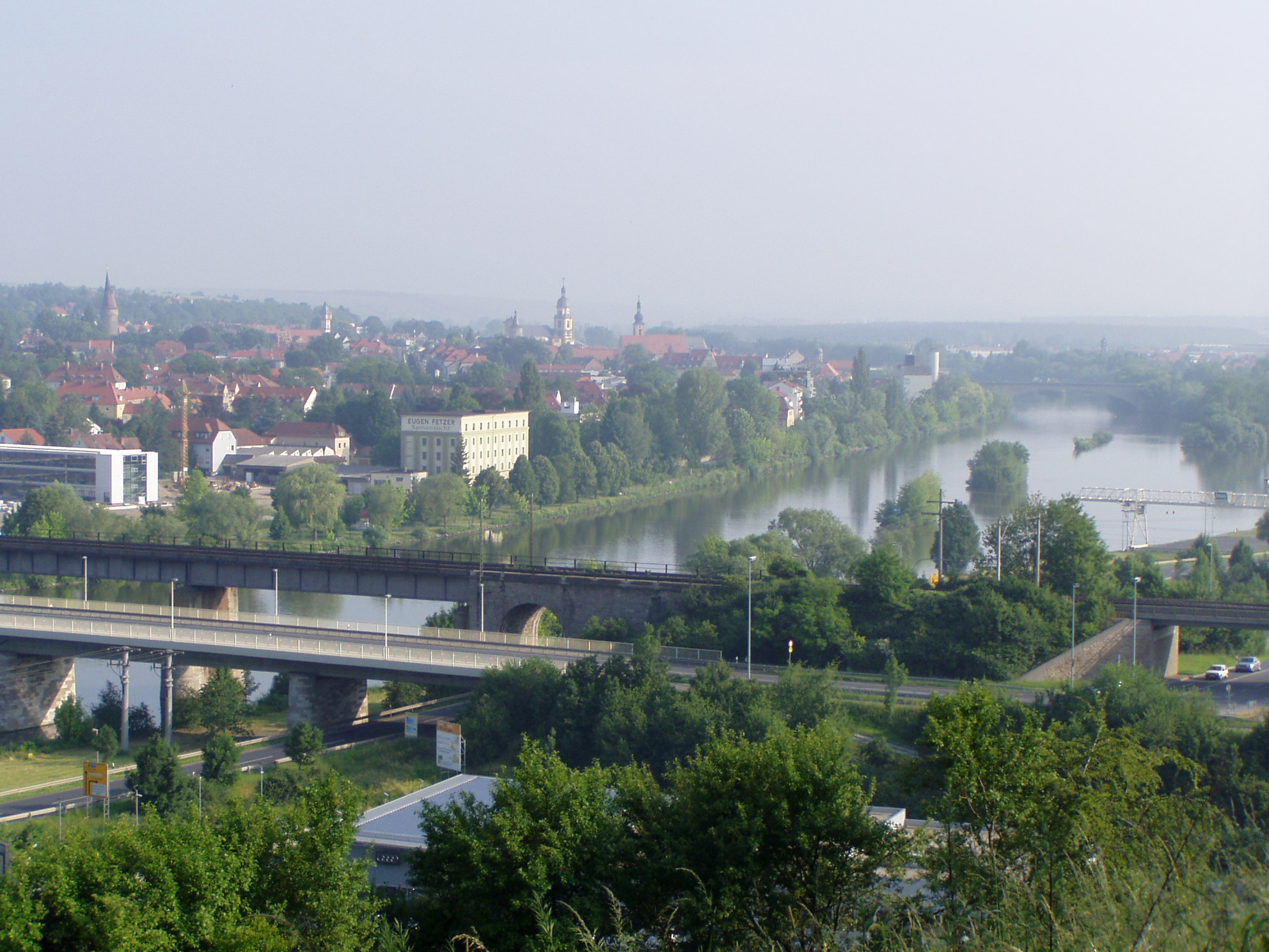 The old wine-trader town of Kitzingen on the Main in an early summer morning fog, seen from above.